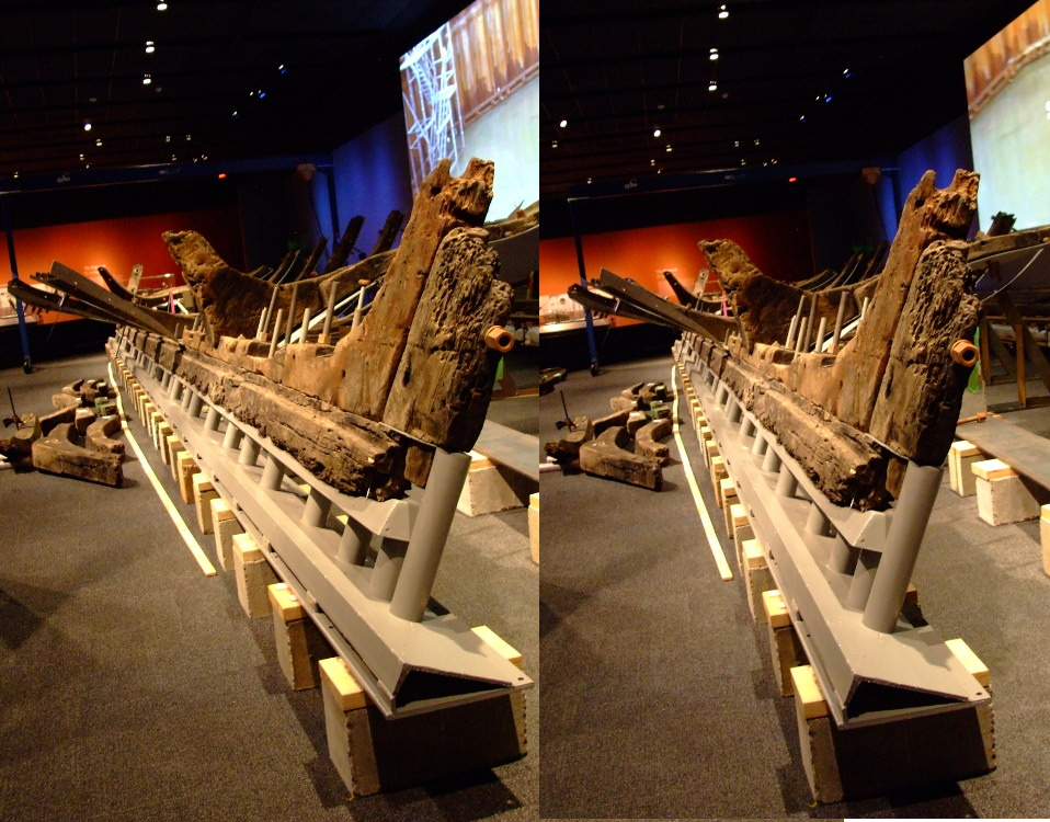 Compound of two images taken from slightly different positions showing parts of the wreck of La Belle, French ship from 1684, currently being reconstructed in The Story of Texas Museum in Austin. View from the stern.